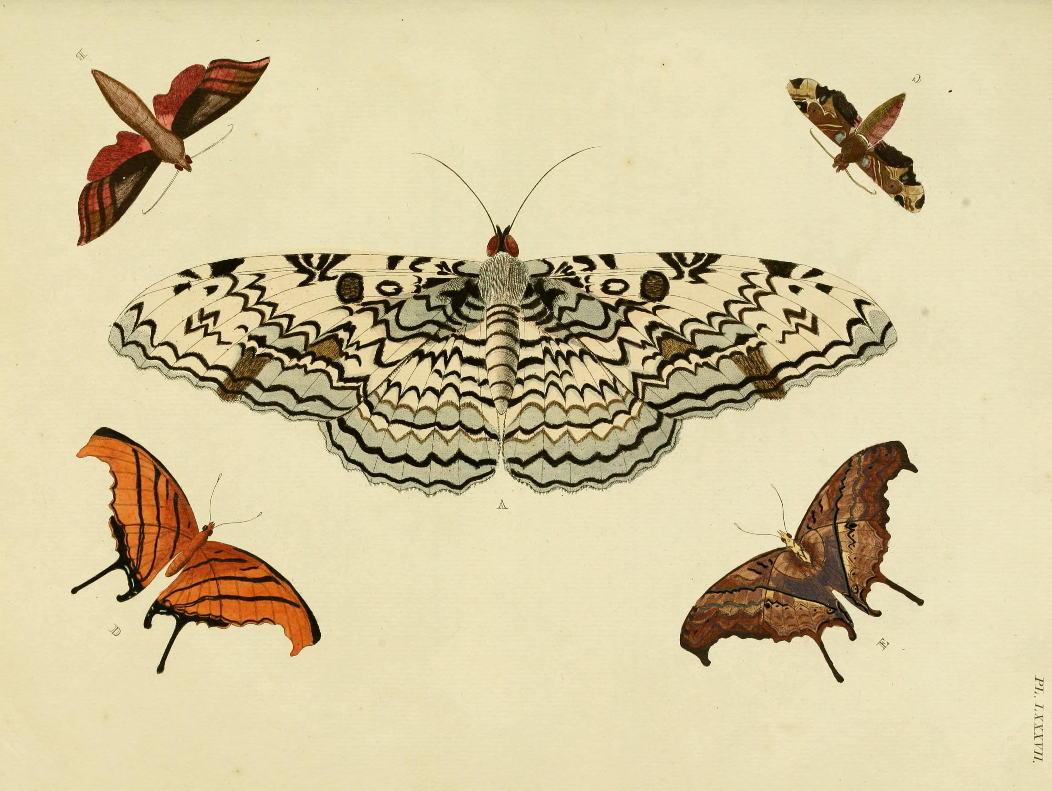 Plate LXXXVII A: "(Phalaena) Agrippina" ( = Thysania agrippina, iconotype?), see Funet Dorsal view. For ventral view see plate 88 A. B: "(Sphinx) Pholus" ( = Darapsa choerilus), see Funet C: "(Sphinx) Japix" ( = Unzela japix), see Funet D, E: "(Papilio) Petreus" ( = Marpesia petreus, iconotype?), see Funet